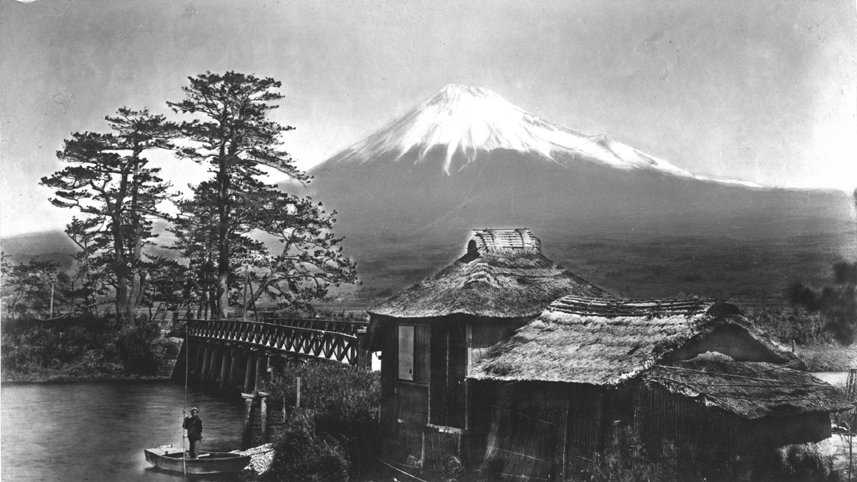 Fujiyama from Kawaibashi, at Tokaido, by Kusakabe Kimbei